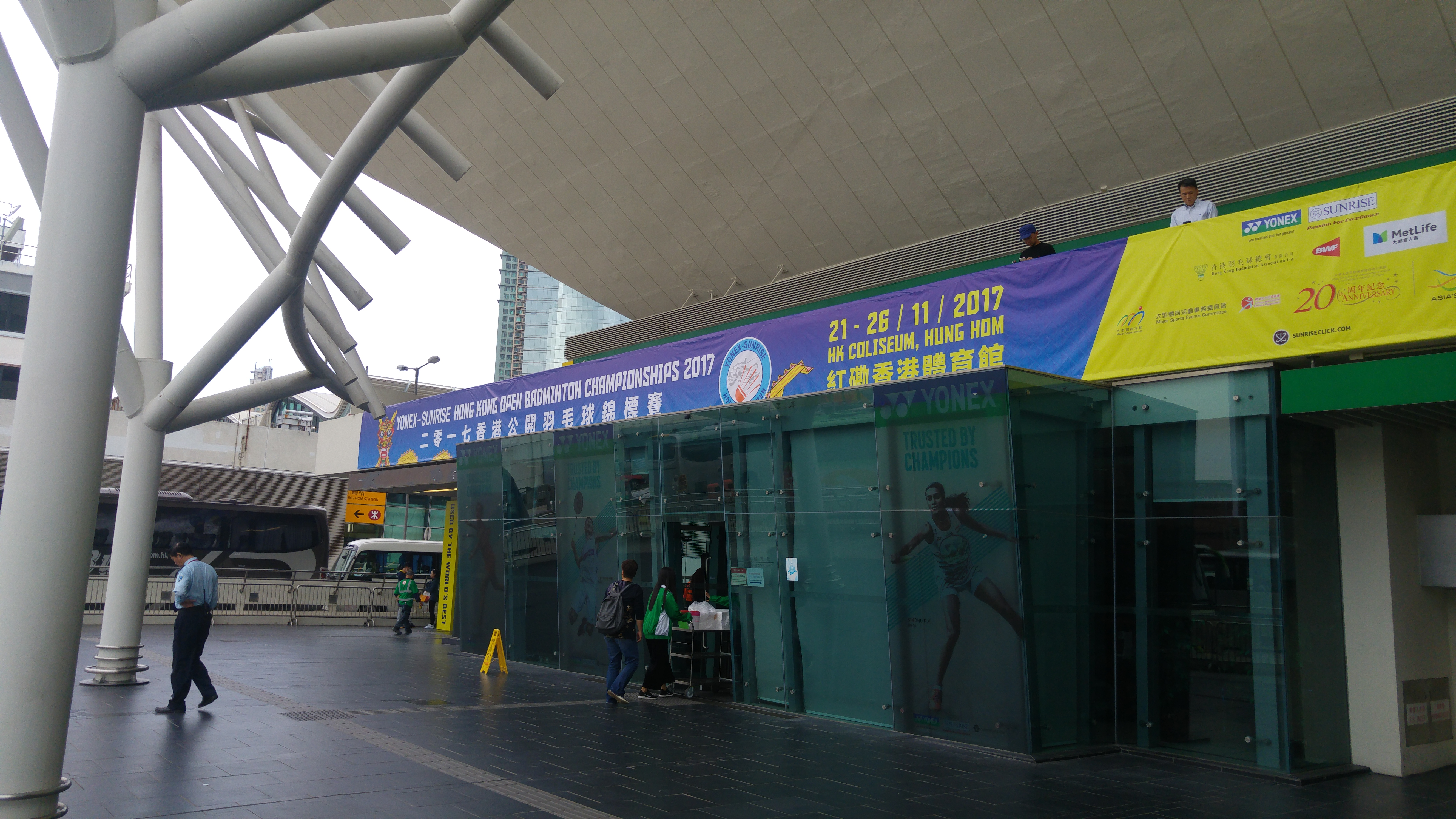 The Venue of Hong Kong Open Badminton Championships 2017 - Hong Kong Coliseum